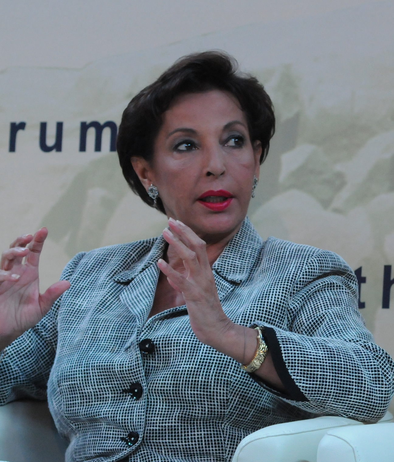 Raghida Dergham at the 2012 Halifax International Security Forum. (Note: EXIF date is incorrect, [1] shows this event took place on 17 November 2012.)